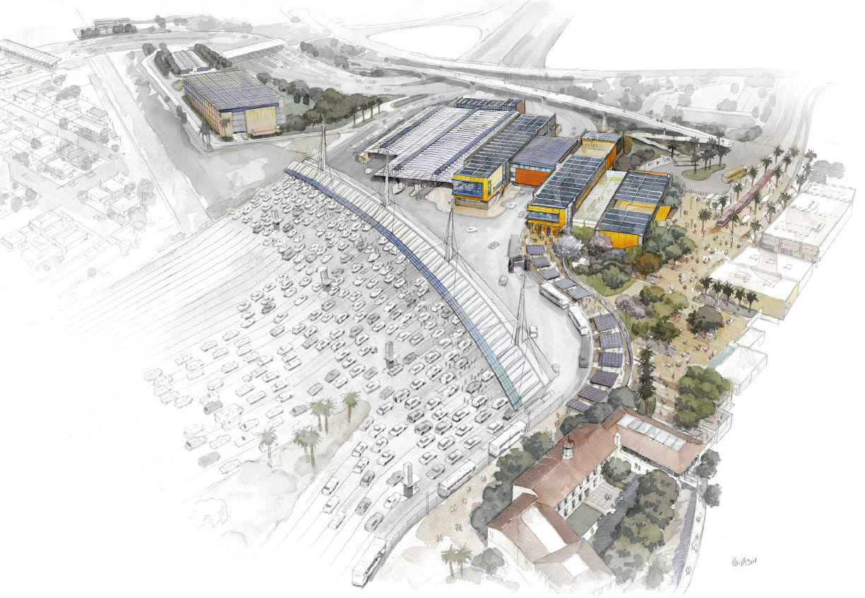 Artist's rendering of the future San Ysidro Land Port of Entry. The NRHP-listed U.S. Inspection Station/U.S. Custom House is near bottom-right.